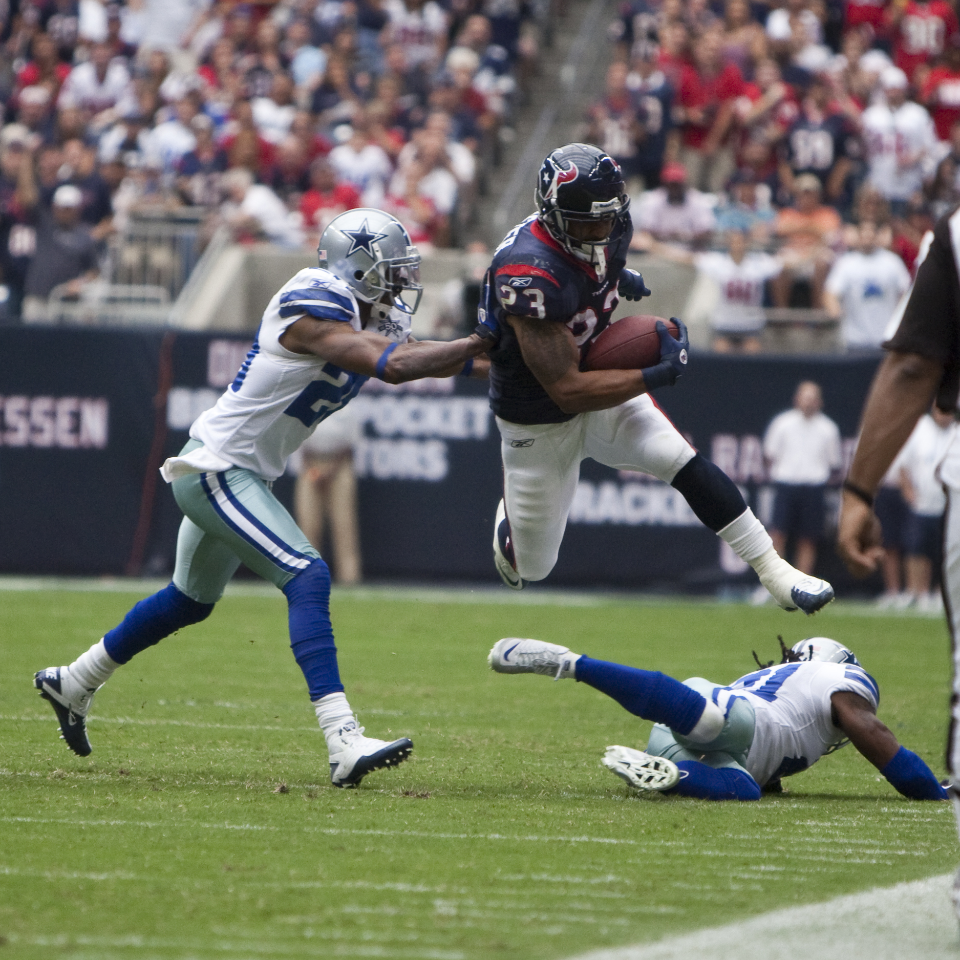 Houston Texans' Running back Arian Foster hurdles Dallas Cowboys' defender Mike Jenkins. Reliant Stadium. Houston, Tx. Sept. 26 2010.